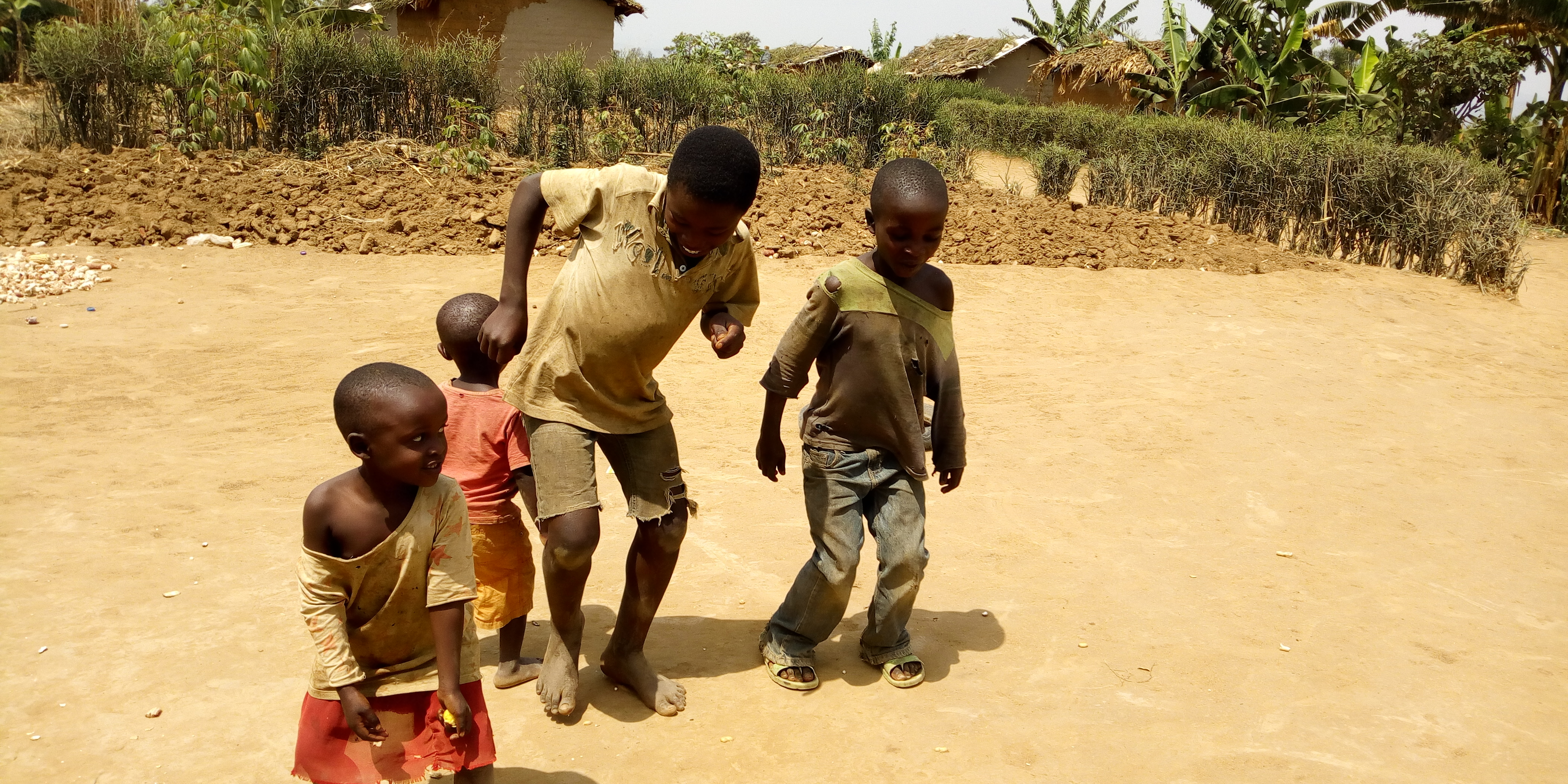 This picture was taken by me (Godfrey Kassano) during data collection of service facilities in Nakivale refugee settlement, found in Isingiro District Uganda. This is an image with the theme "Play" from: Uganda